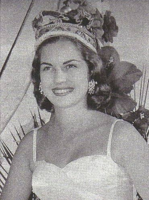 Penelope Anne Coelen (18) crowned as Miss South Africa in the year 1958. Johannesburg, SA.